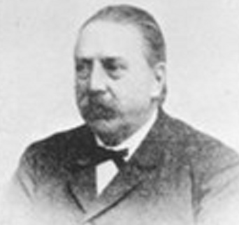 Willem Pleyte (1836-1903) Dutch Egyptologist